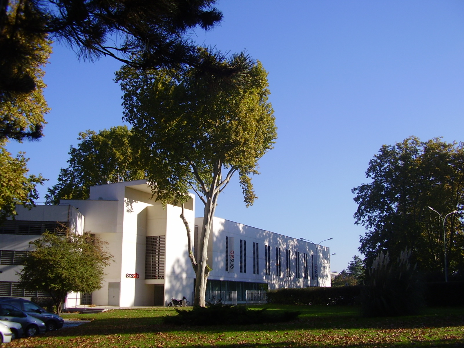 The École nationale supérieure des sciences de l'information et des bibliothèques (Librarian school) in Villeurbanne, near Lyon (France)